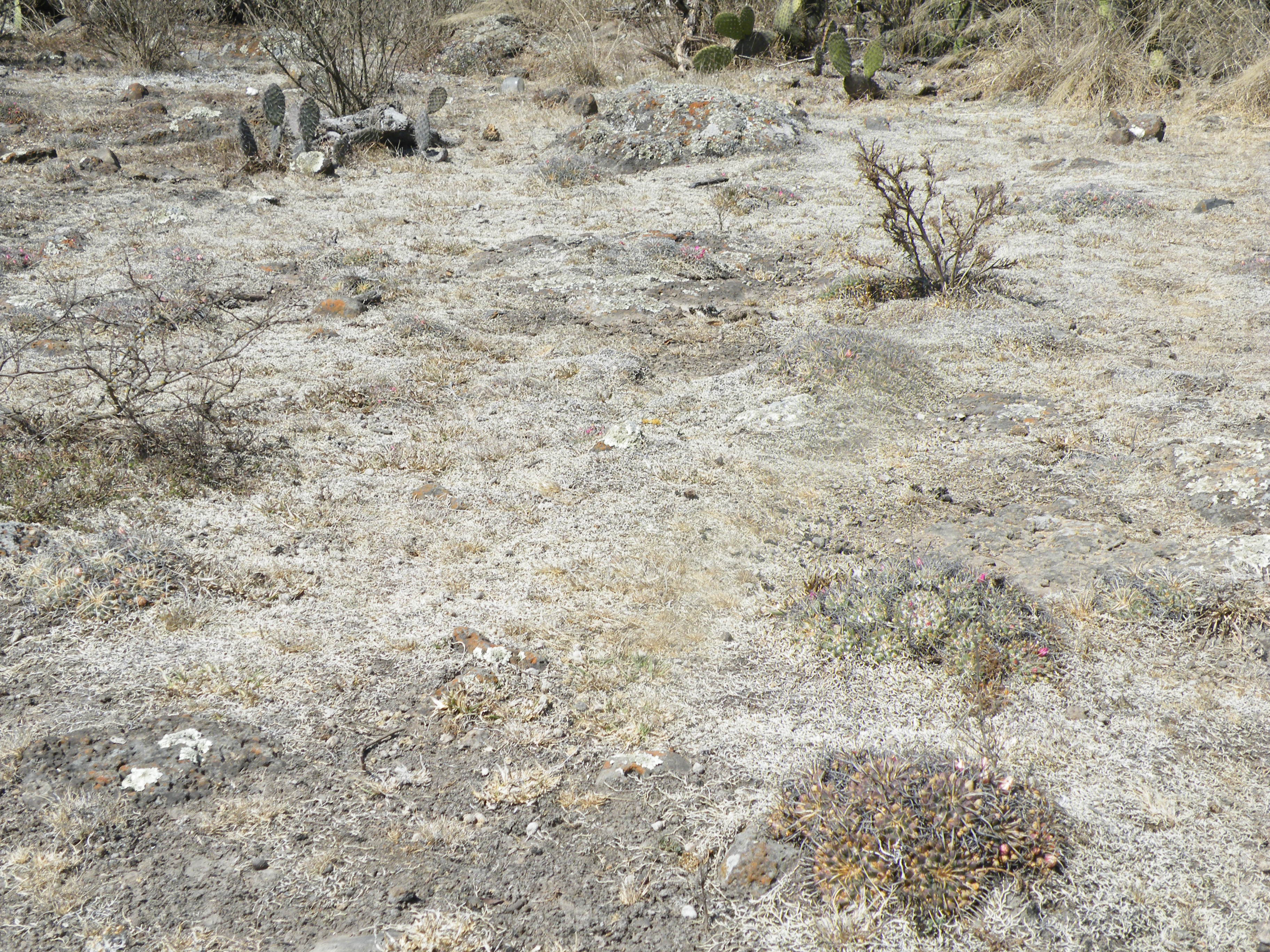 Turn off to Yerba Buena, Hidalgo